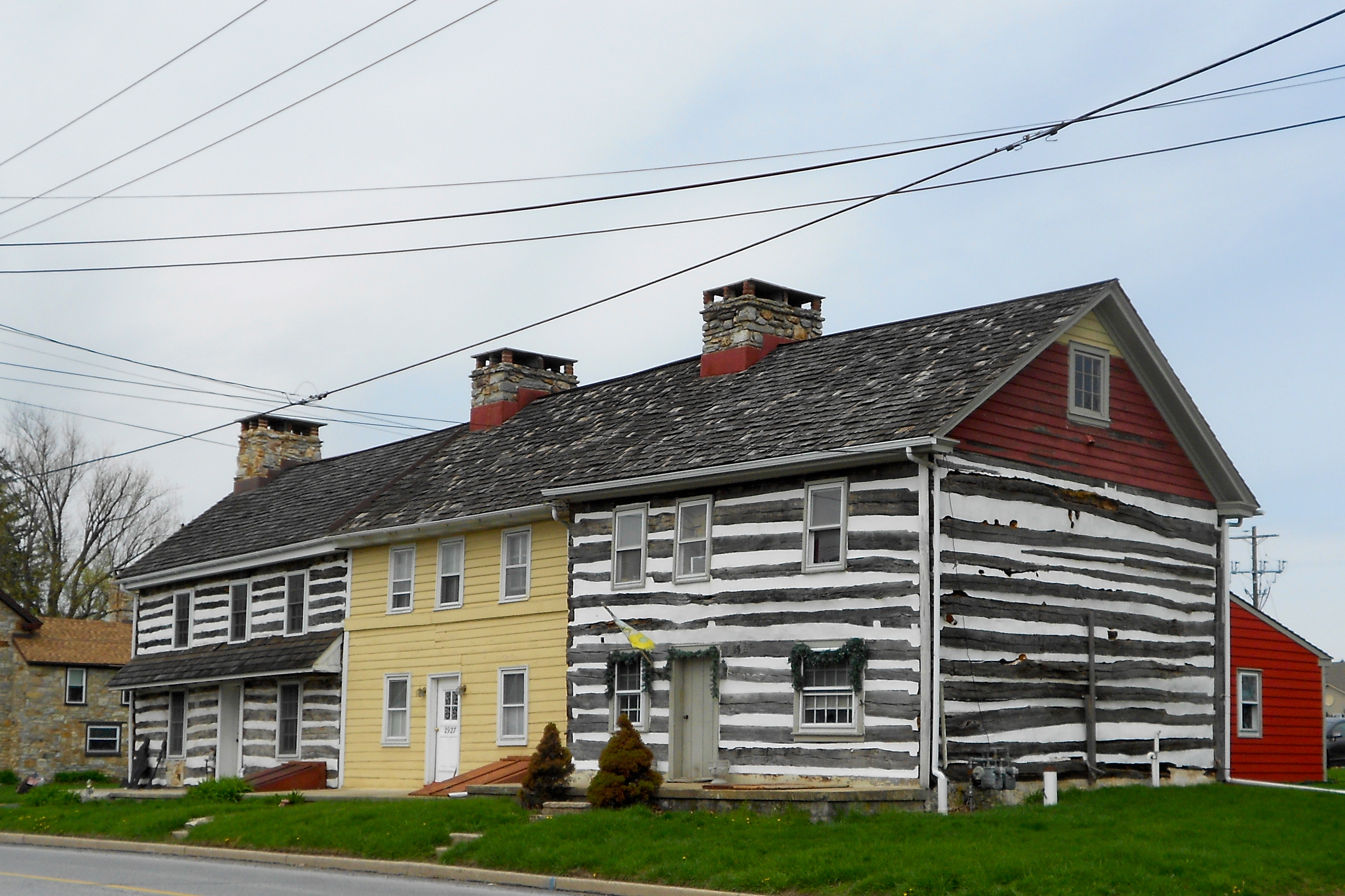 Building in Sadsburyville, Chester County, Pennsylvania along Business US 30 in Sadsbury Township